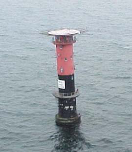 Fladen light, (57°13'N., 11°50'E.), equipped with a racon, is shown from a prominent floodlit tower, 26m high, standing on the NE side of Fladen, a sand bank with a least depth of 5.9 meters in teh Kattegat